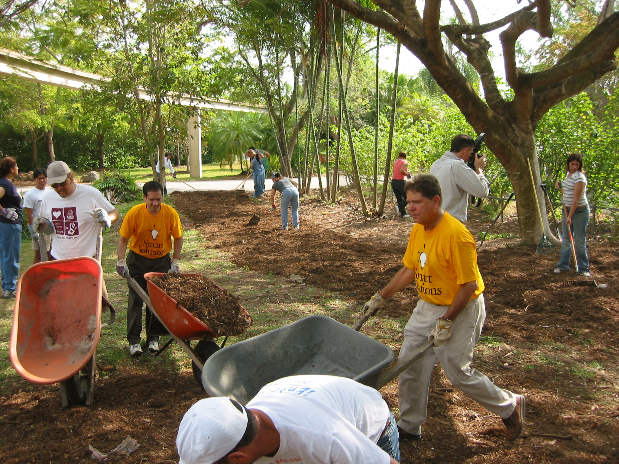 Hands On Miami volunteers help out at Zoo Miami.